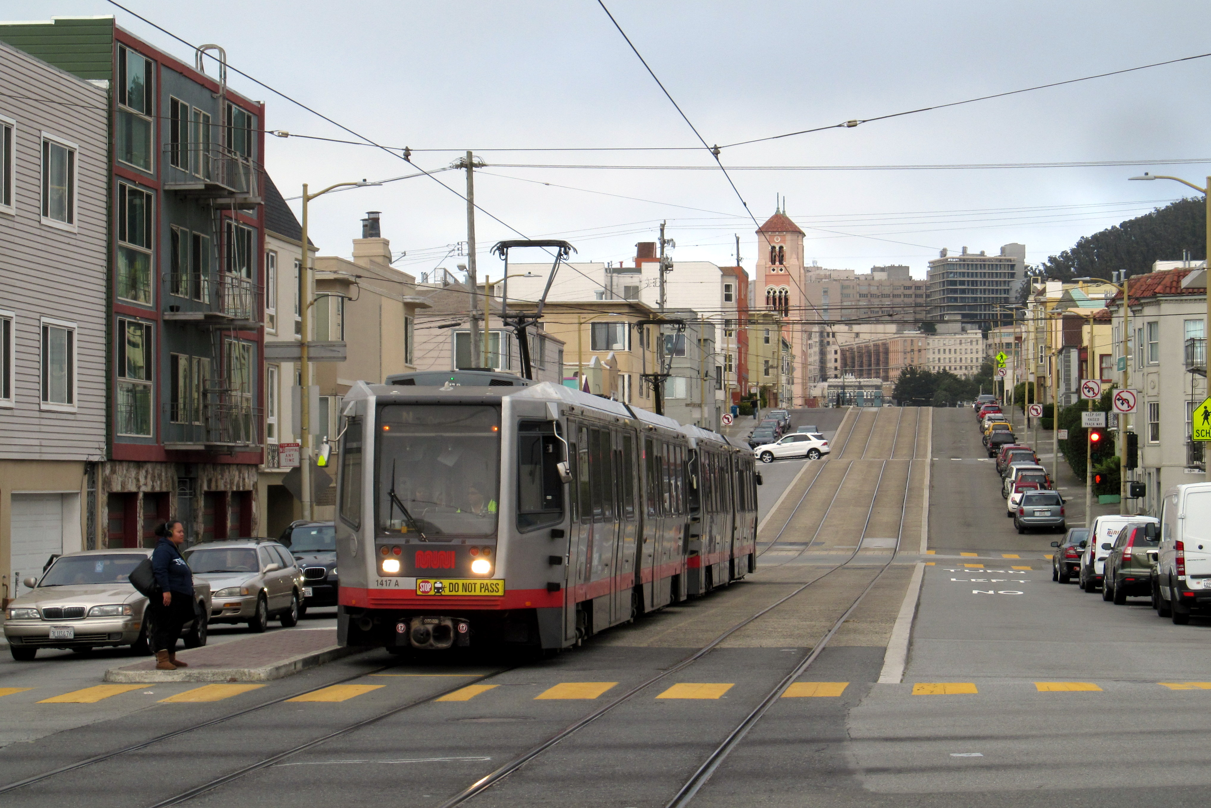 An outbound N Judah train at Judah & 19th Avenue stop in June 2017